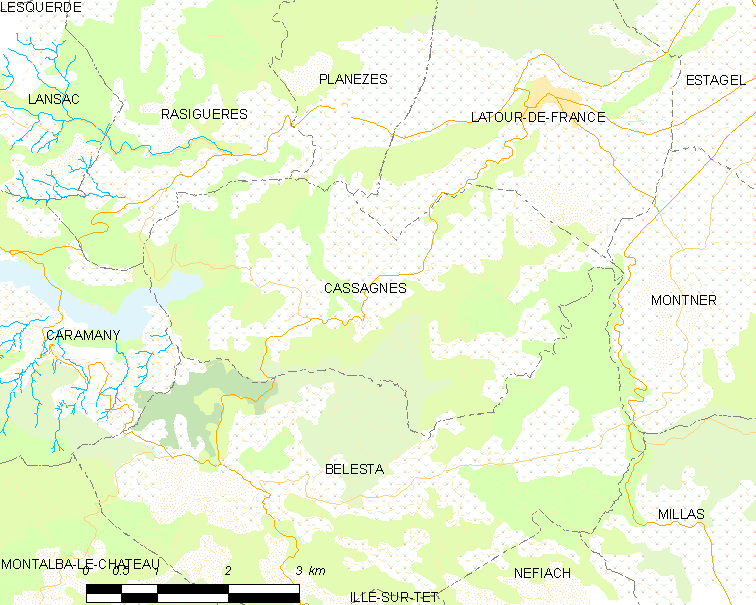 Map of French municipality